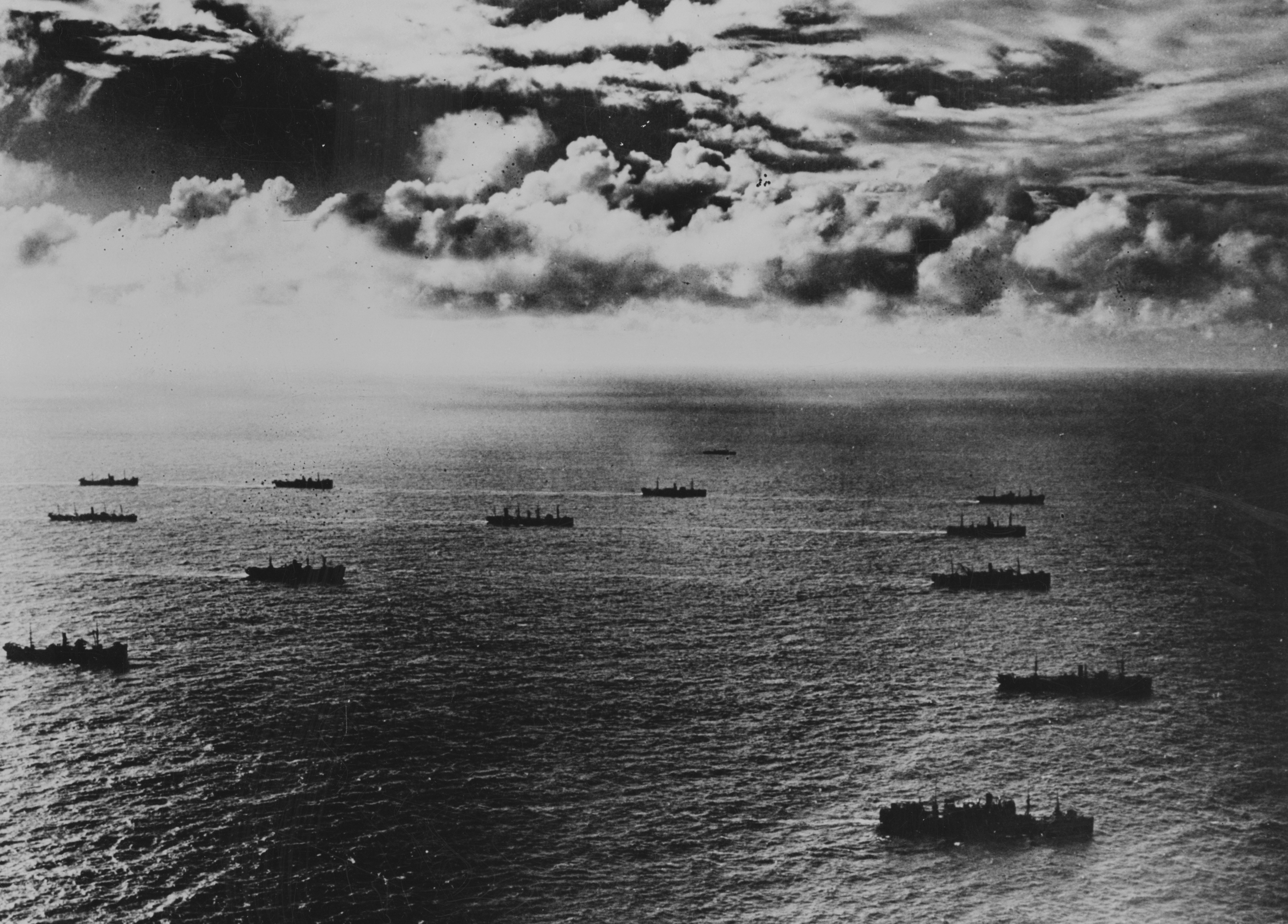 An Atlantic convoy underway during the Second World War. Original caption: "Sturdy cargo ships fill the sea lanes leading to all fronts, bearing guns, tanks, and planes for the United Nations. The Liberty ships are visible in this section of the convoy."